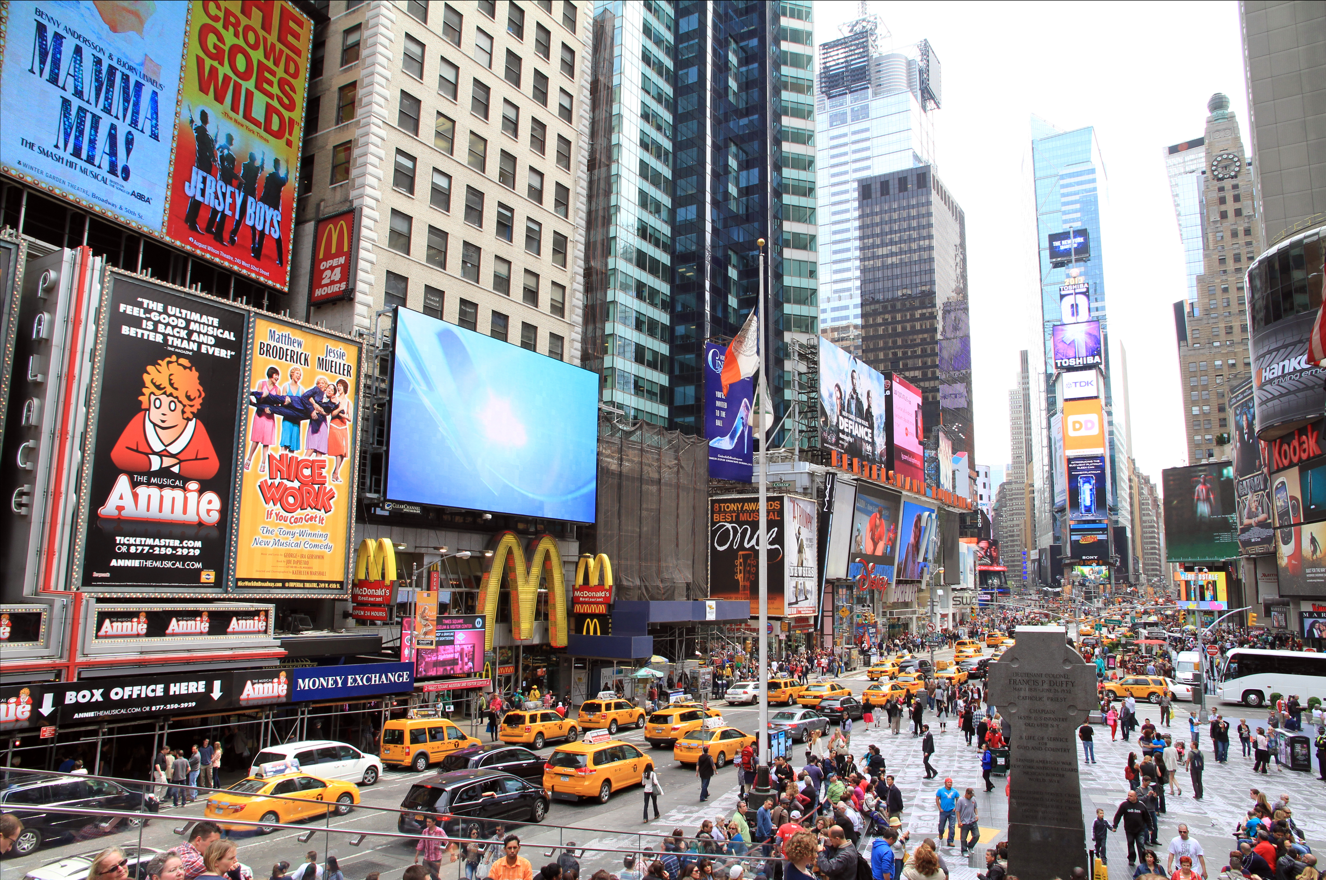 Times Square